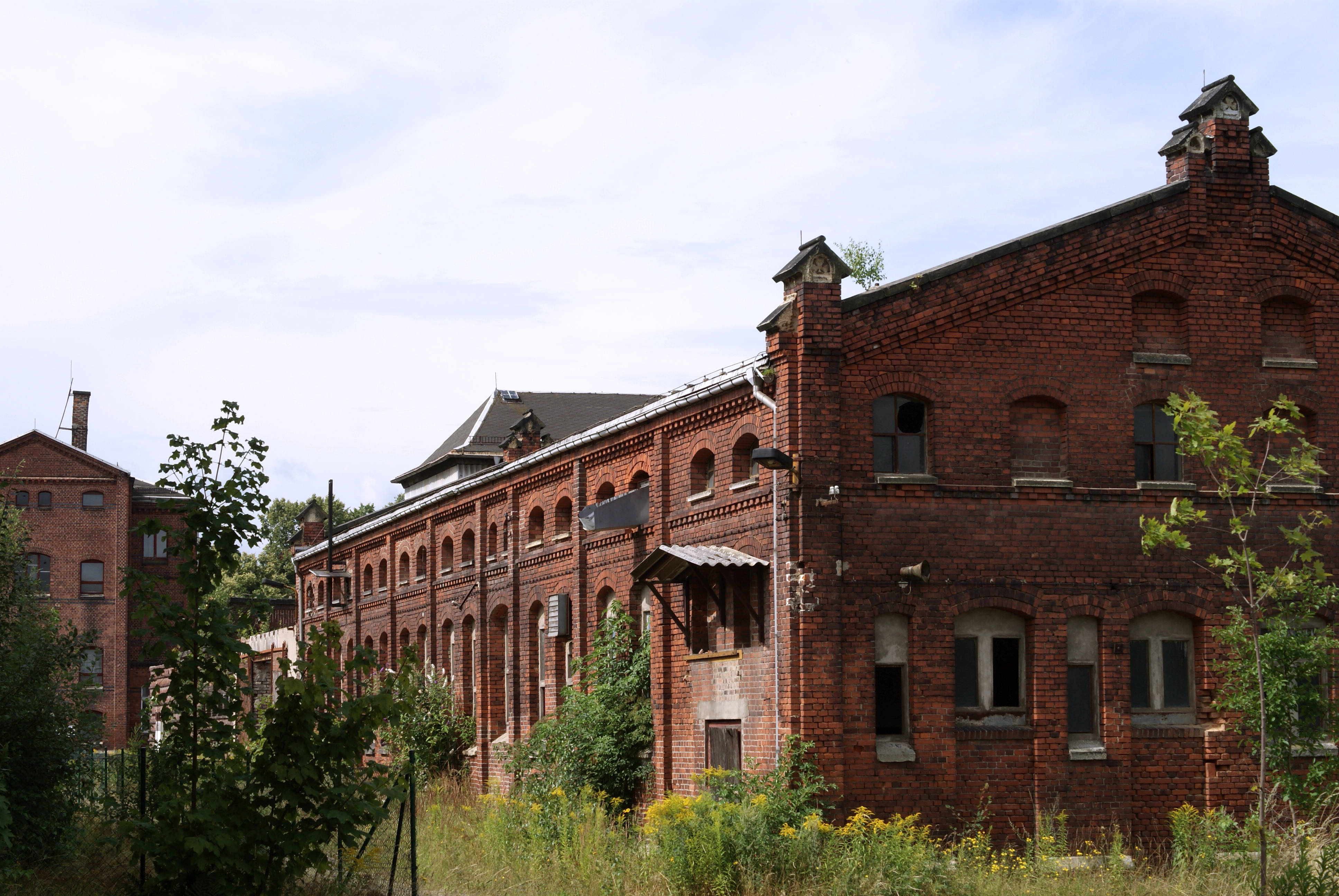 The former slaughterhouse in Reichenbach im Vogtland, Germany